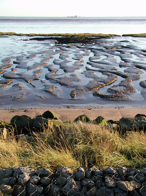 The Humber Estuary across the western end of Sunk Island Sands, east south east of Sunk Island, East Riding of Yorkshire, England.Looking across the western end of Sunk Island Sands from the Humber bank south of Patrington Haven.